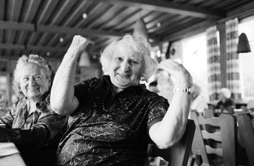 Resident of a nursing home in Munich (Germany)